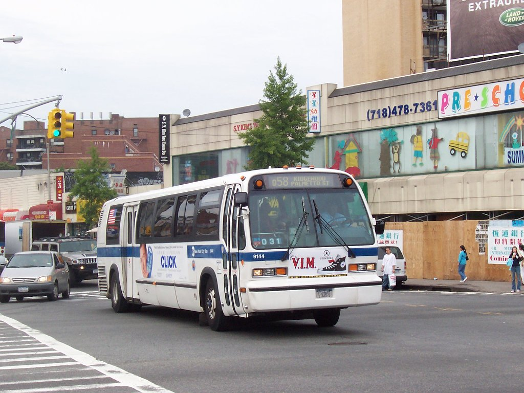 NYC Transit #9144 (equipped with a Cummins engine) operates on the Q58.